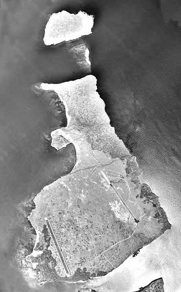 Aerial photo of Baltra Island and Little Seymour Island taken by B-24 Liberator crew.